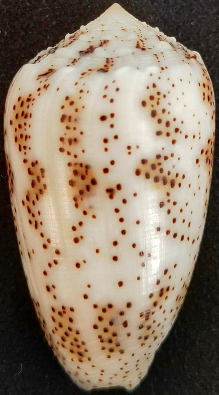 Conus Arenatus Bizonus (var.) Back